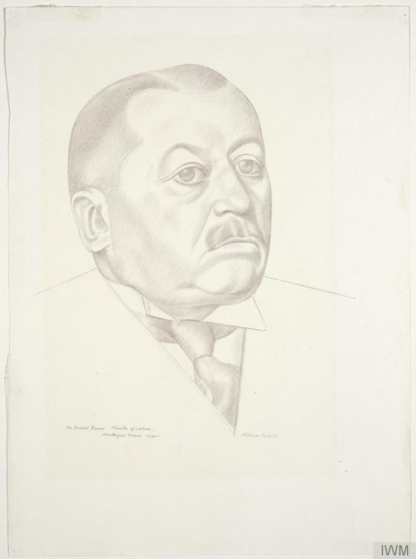 A head portrait of Ernest Brown